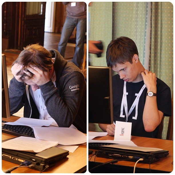 Petr Mitrichev (left) and Gennady Korotkevich (right) during the Yandex.Algorithm contest.